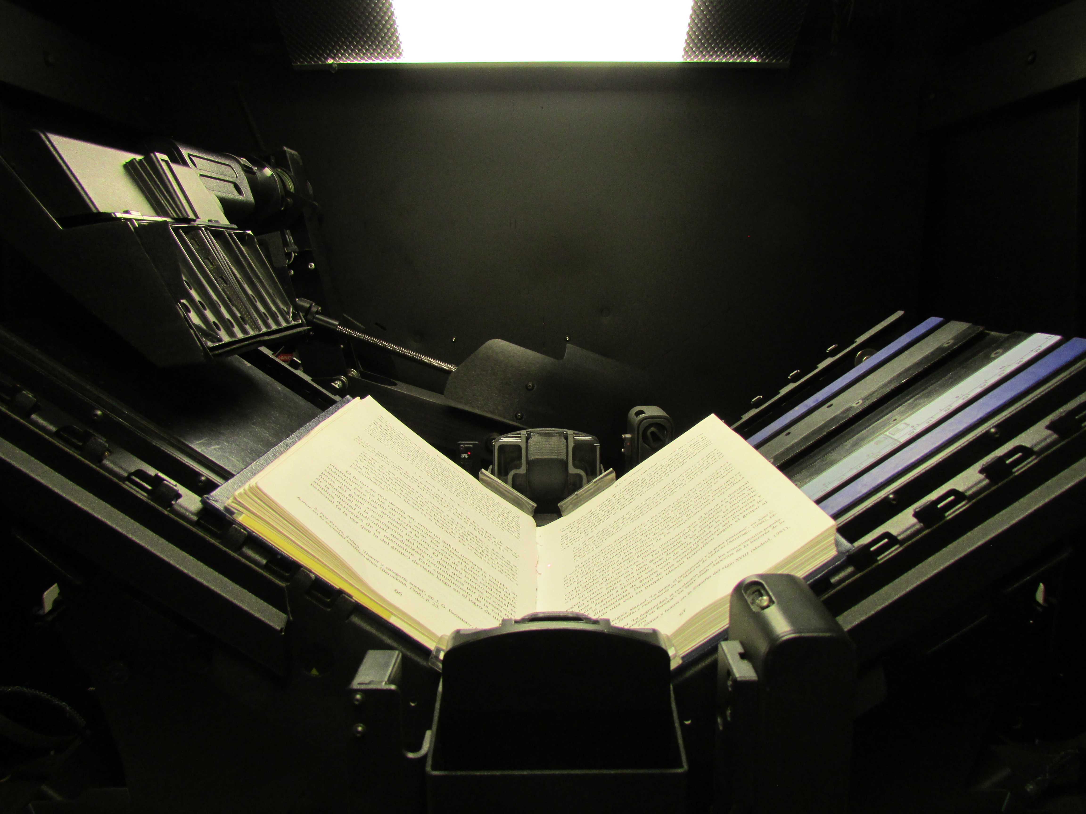 Digitalization Laboratory of the National Library of Chile.